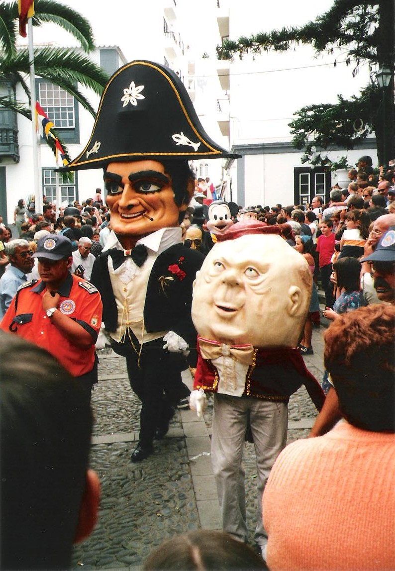 Santa Cruz, Bajada-2000